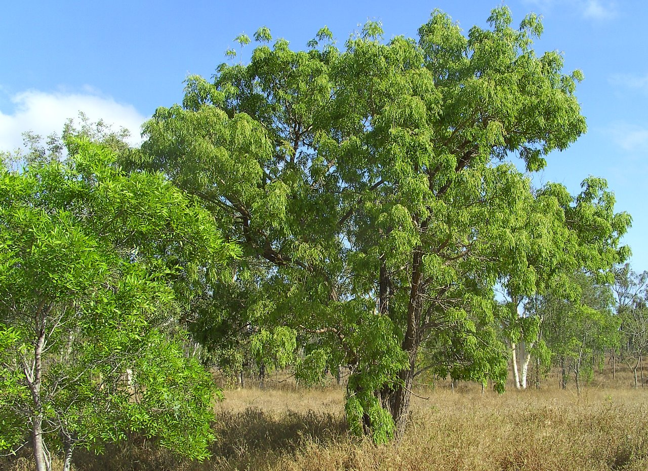 Tree wisteria near Collinsville, Queensland. Legume - violet flowers - fibrous bark - free anthers - compound leaves - imparipinnate, up to 5 pairs leaflets sub-opposite - pod guess 4-5 seeds